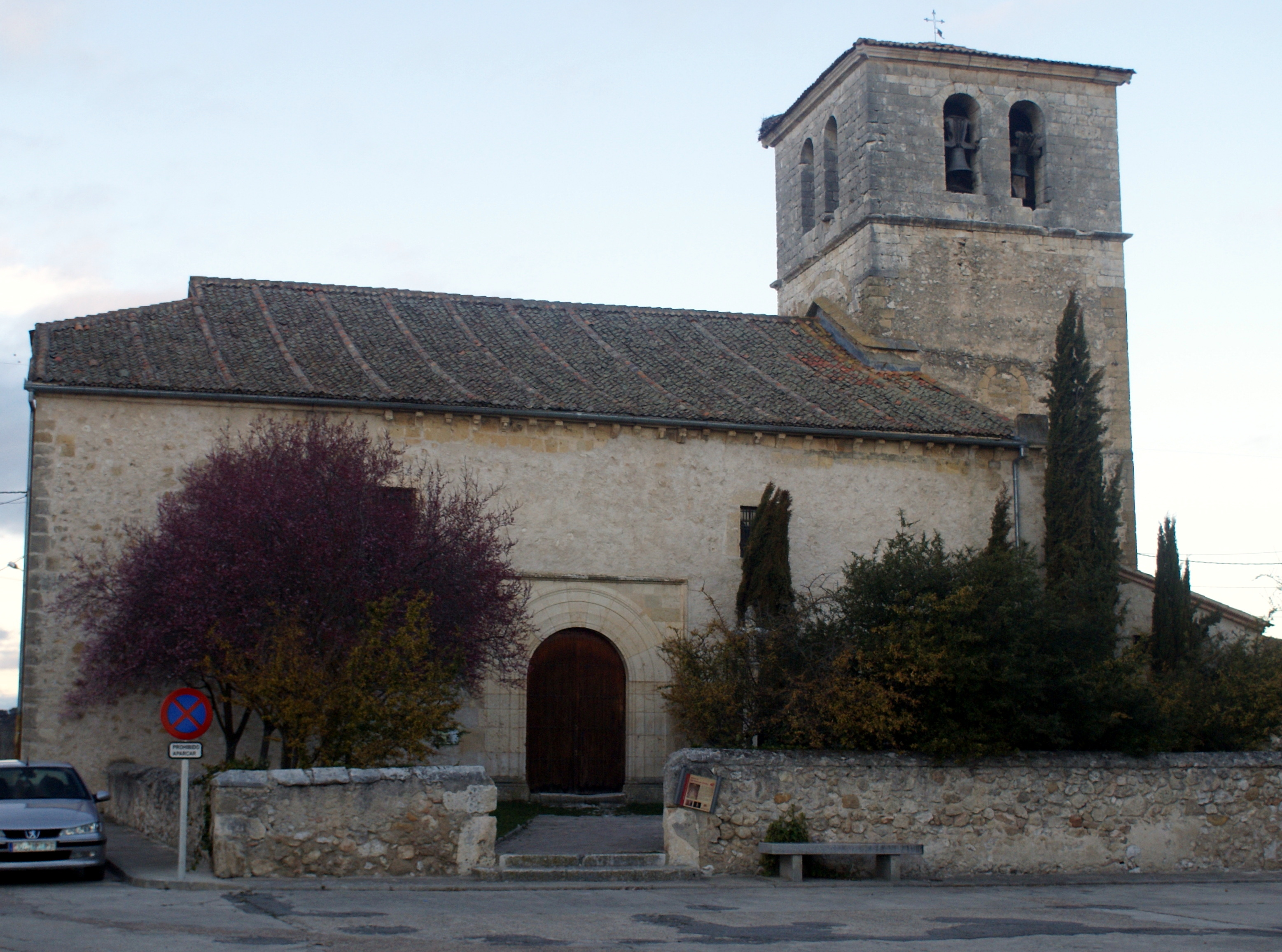 Church of Fuente el Olmo de Fuentidueña, Segovia, Spain.